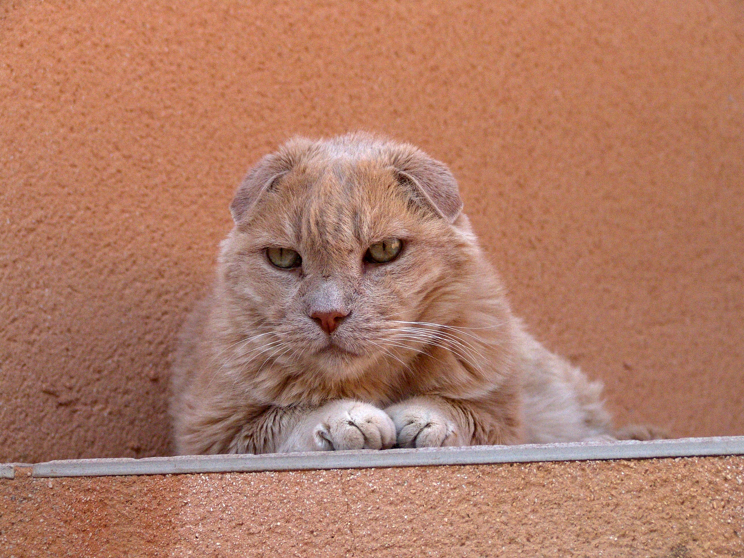 A pink cat with folded ears.